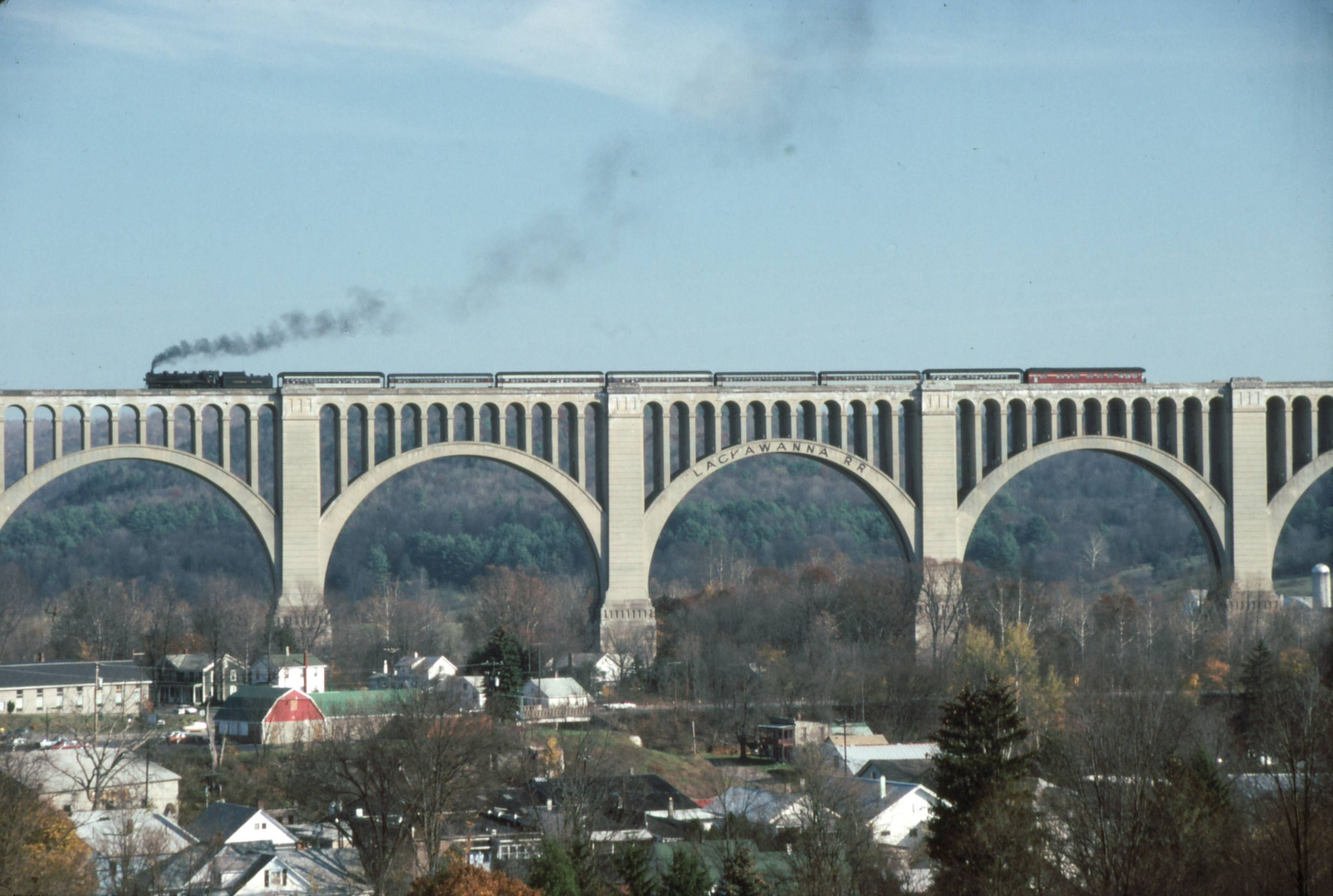 The Tunkhannock Viaduct (also known as the Nicholson Bridge) is a concrete deck arch bridge that was opened 1915 and spans the Tunkhannock Creek in Nicholson, Wyoming County, Pennsylvania, USA